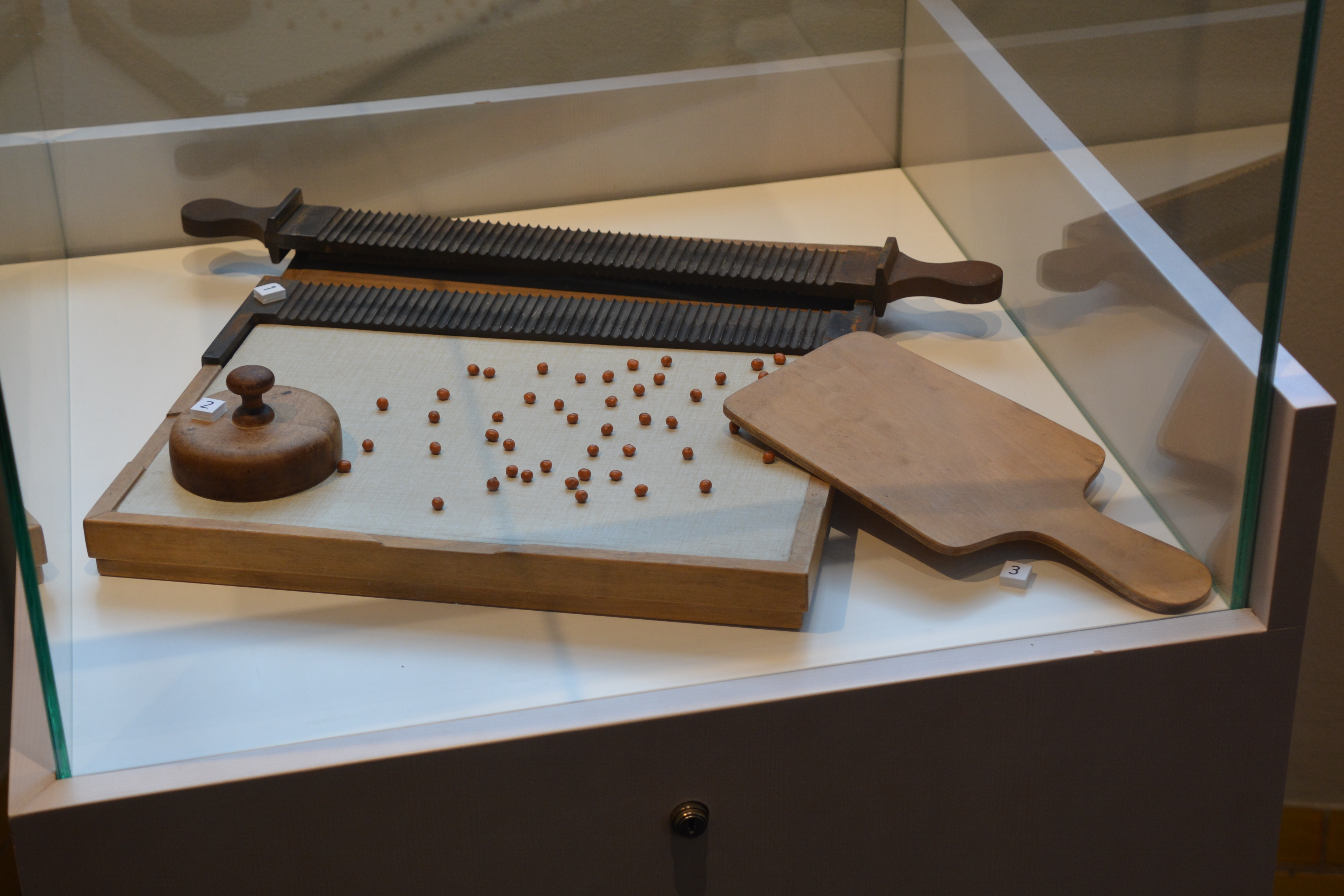 Livets museum, Lund